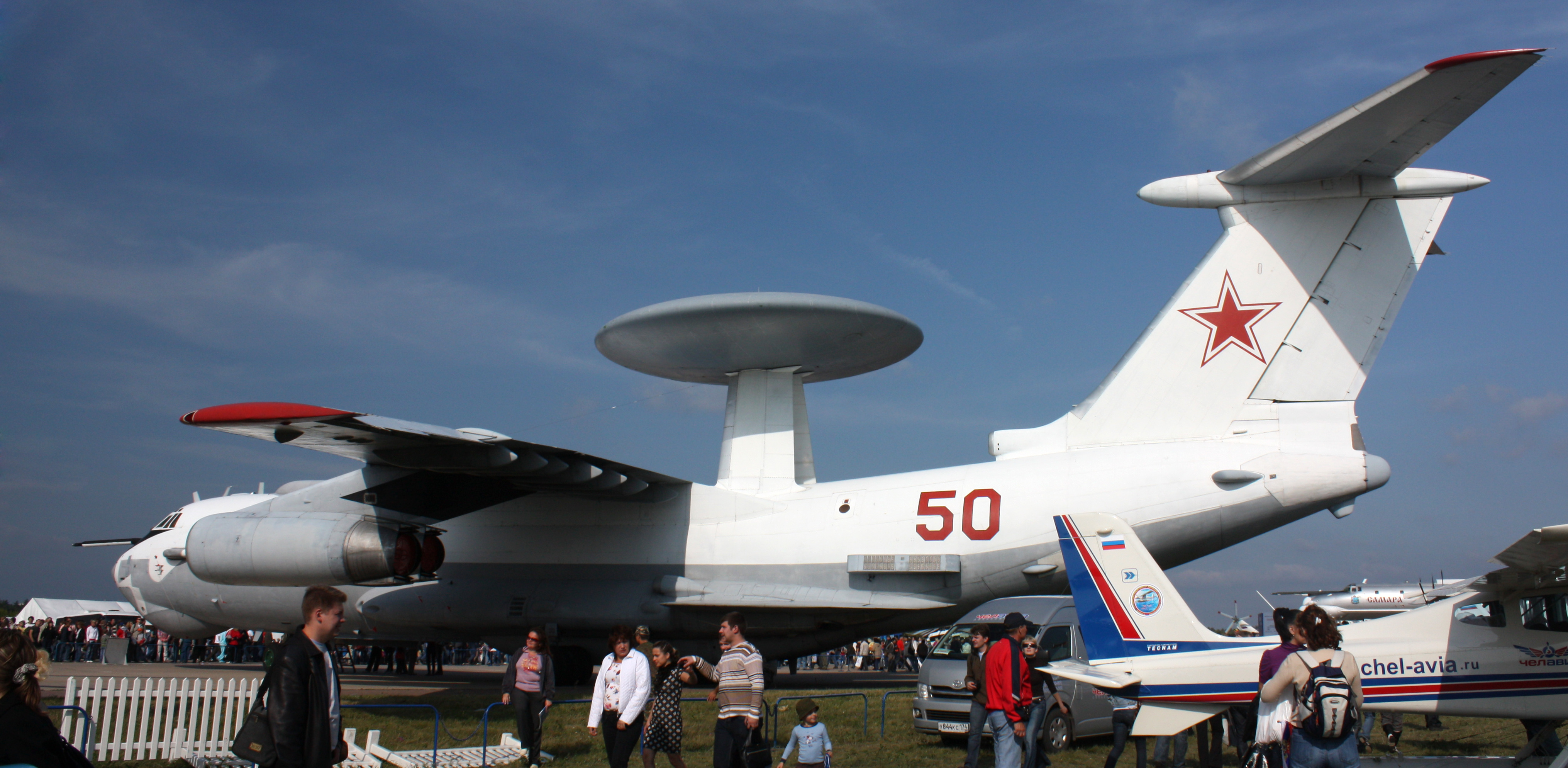 Beriev A-50 (the international aerospace salon MAKS-2009)